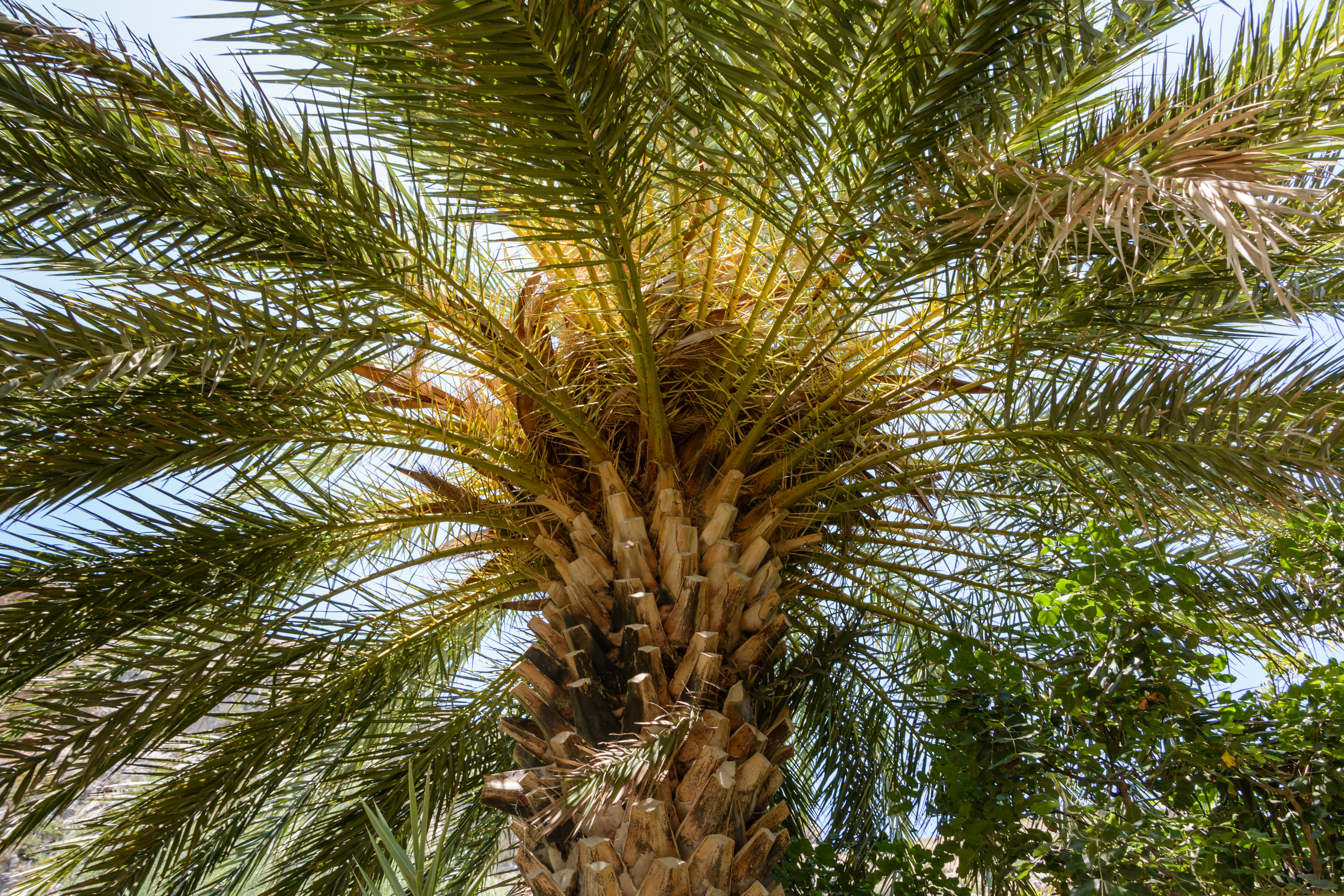 Cretan Date Palm (Phoenix theophrasti) in the palm forest of Preveli, Crete